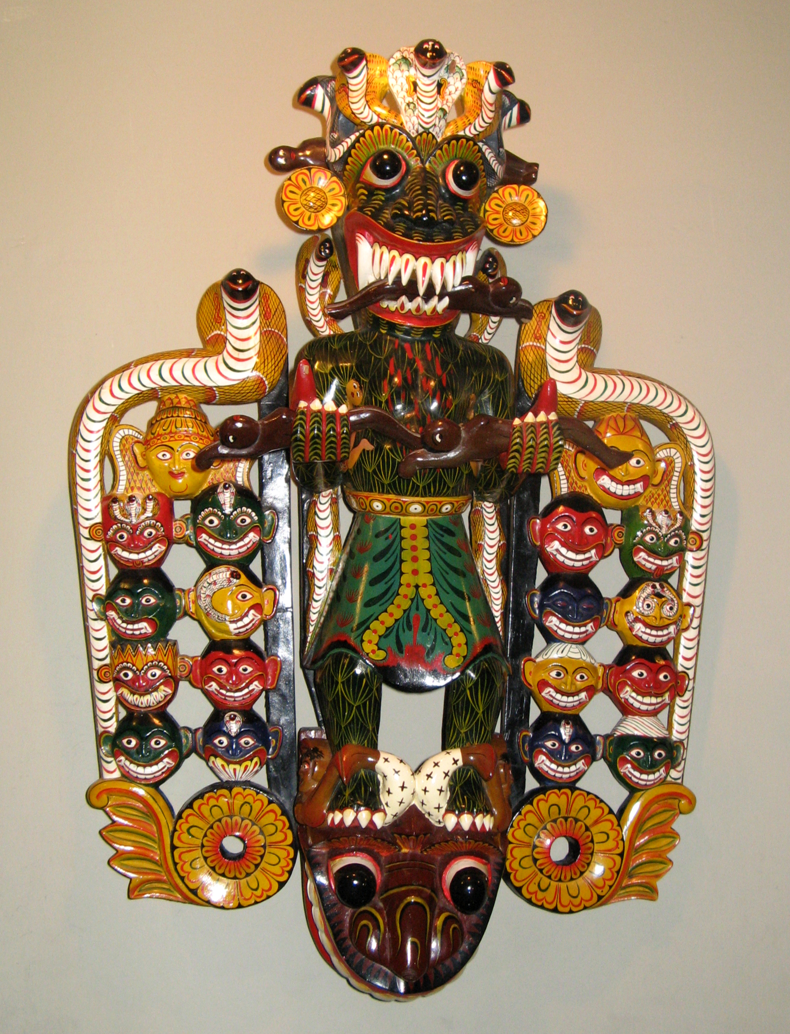 Maha Kola is the boss of 18 demons of illness that are represented in the Sanni Dance (devil dance). Holding victims in his hands and mouth, Maha Kola is surrounded by snakes and by the 18 Sanniyas - the demons of blindness, cholera, boils, and other pestilences, each of whom is given its own mask. As the curing ceremony proceeds, a ritual specialist propitiates the appropriate demon(s) on behalf of the patient and his family. When done, the demons are dismissed and the area is ritually cleansed of any lingering bad influences.